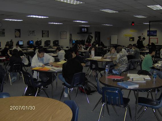 Alief Kerr High School Science Center